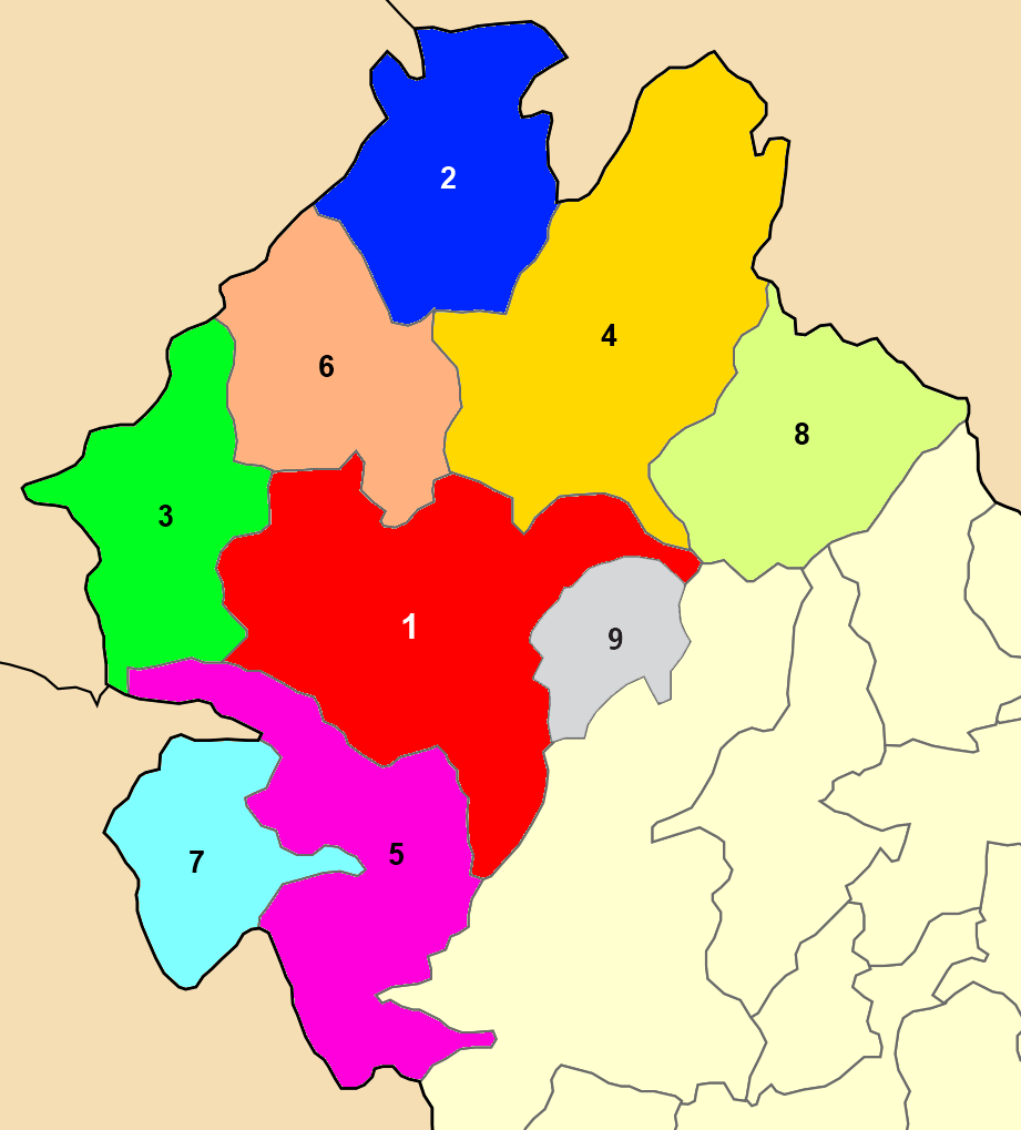 New version of file "Dimos Elasonas Enotites" with added former municipality Tsaritsani (9 -grey) which was missing in original file.